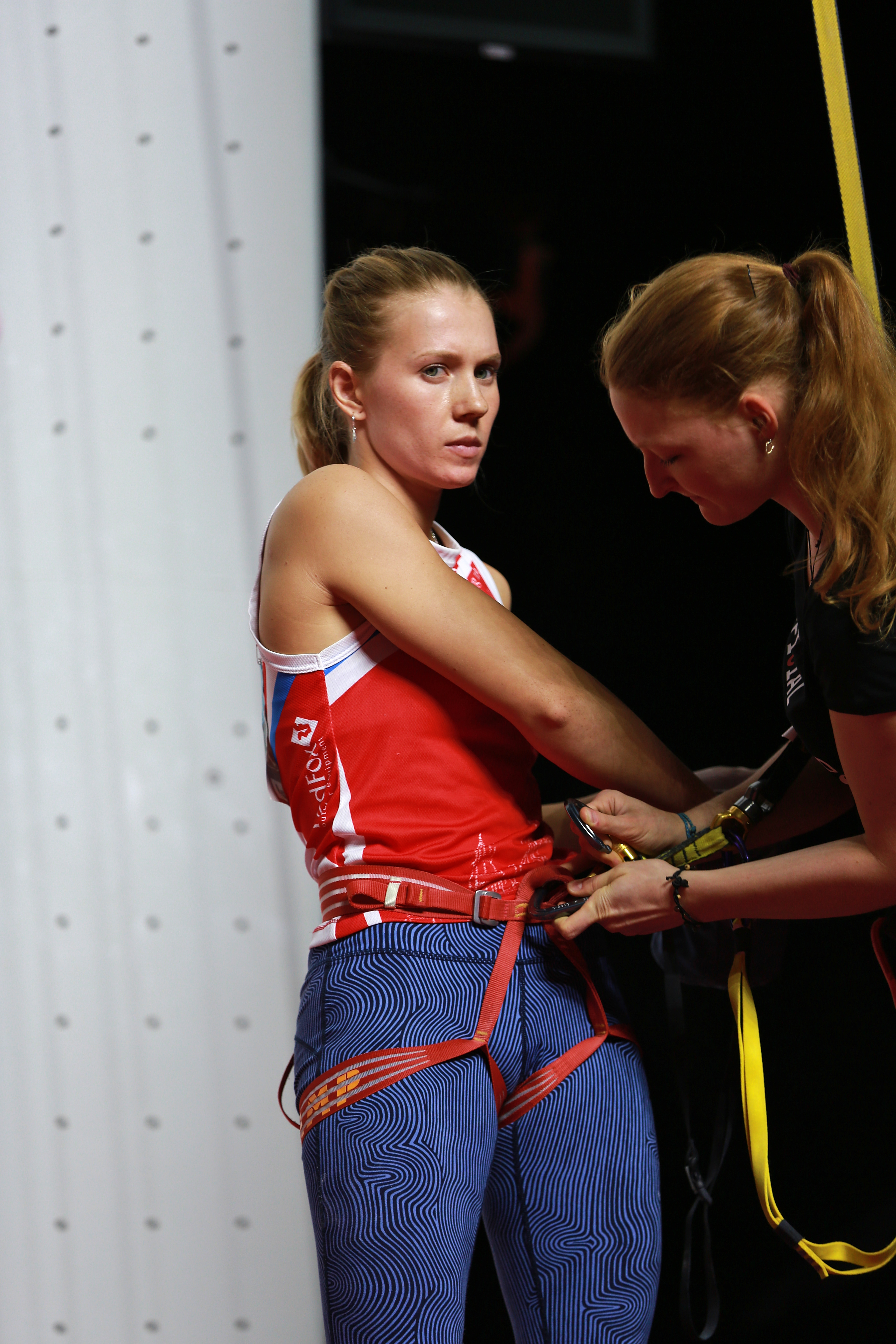 Climbing World Championships 2018 Speed Eighth-finals